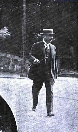 Erik Semmy Henius (1863-1926), Danish wholesaler and consul